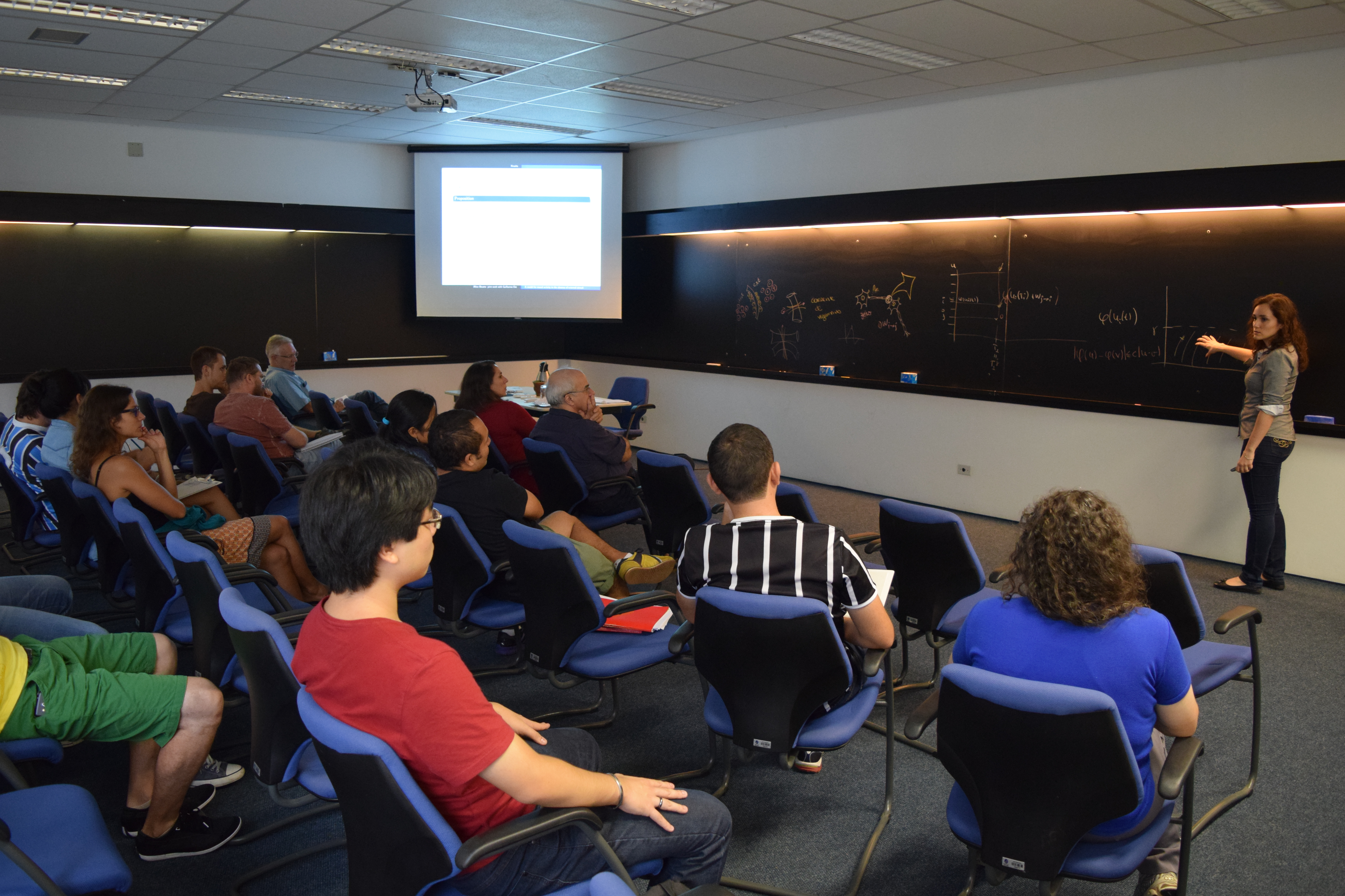 Aline Duarte, a NeuroMat researcher, speaks on "A model for neural activity in the absence of external stimuli", at Research, Innovation and Dissemination Center for Neuromathematics (Cepid NeuroMat), São Paulo (SP), Brazil. Cepid NeuroMat is located at São Paulo University. This photo was taken at NeuroMat Multipurpose Room.